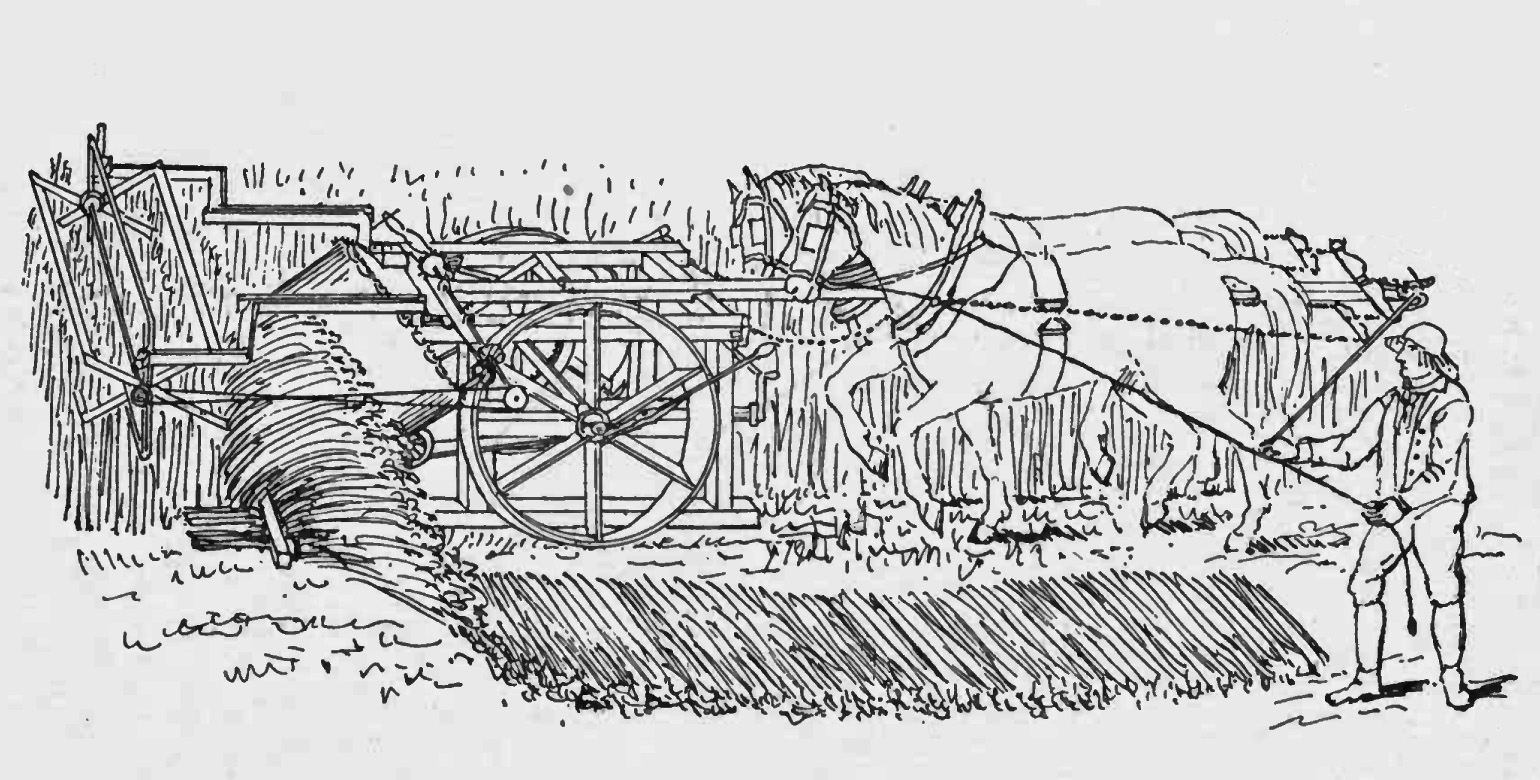 Illustration of reaper invented by Patrick Bell of Scotland. It was patented by others in the US. It allowed grain to be harvested by machine instead of by hand.